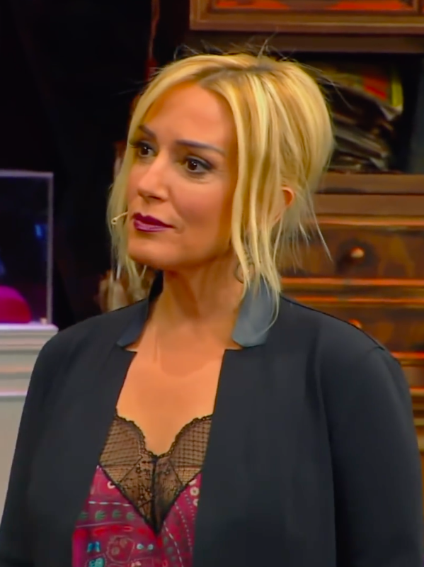 Turkish television presenter Saba Tümer during the 16th episode of Tolgshow hosted by Tolga Çevik.